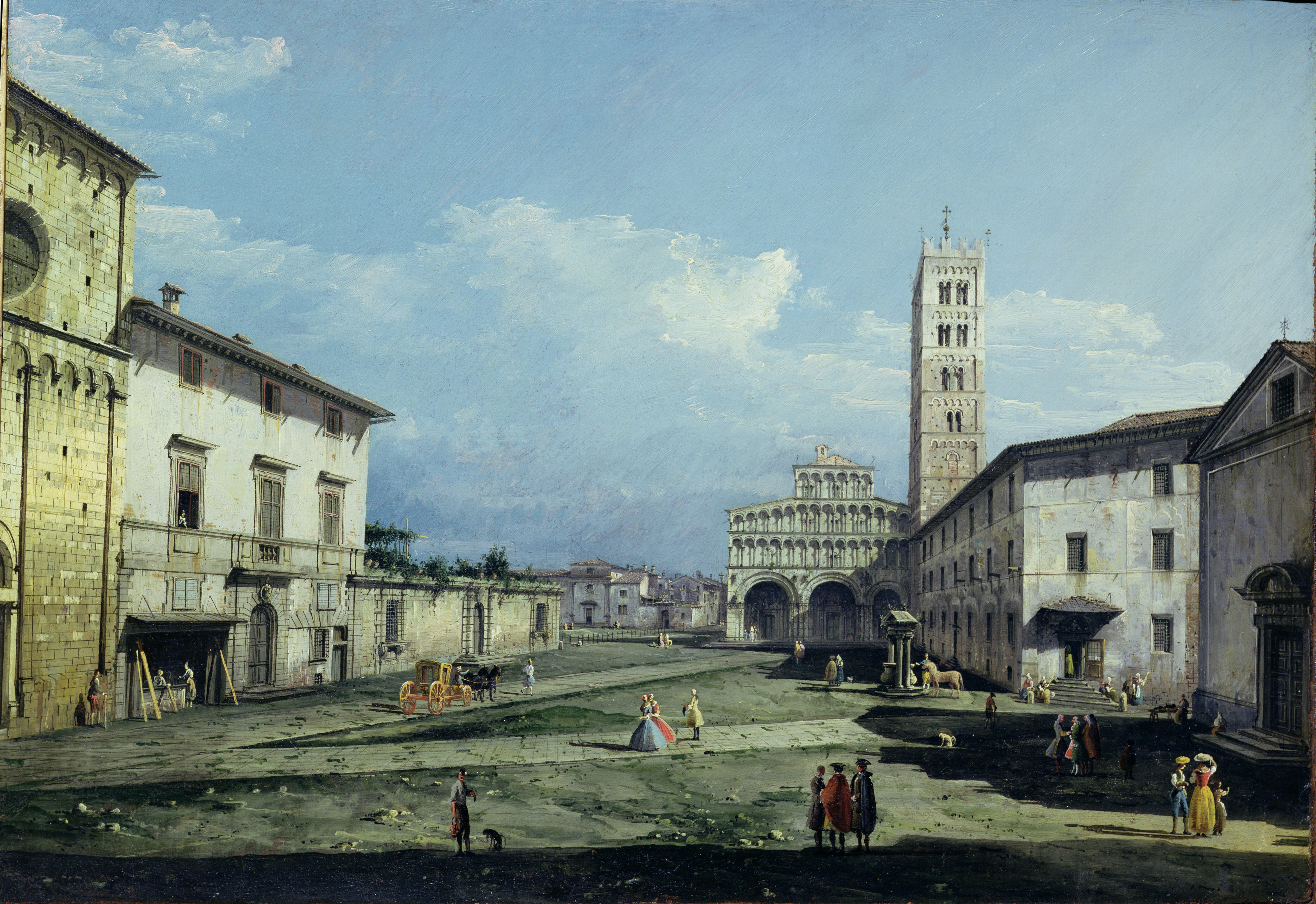 On the left, the Church of San Giovanni and the Palazzo Micheletti (designed by Bartolomeo Ammanati) with its terraced gardens; the Duomo and Campanile, centre right.